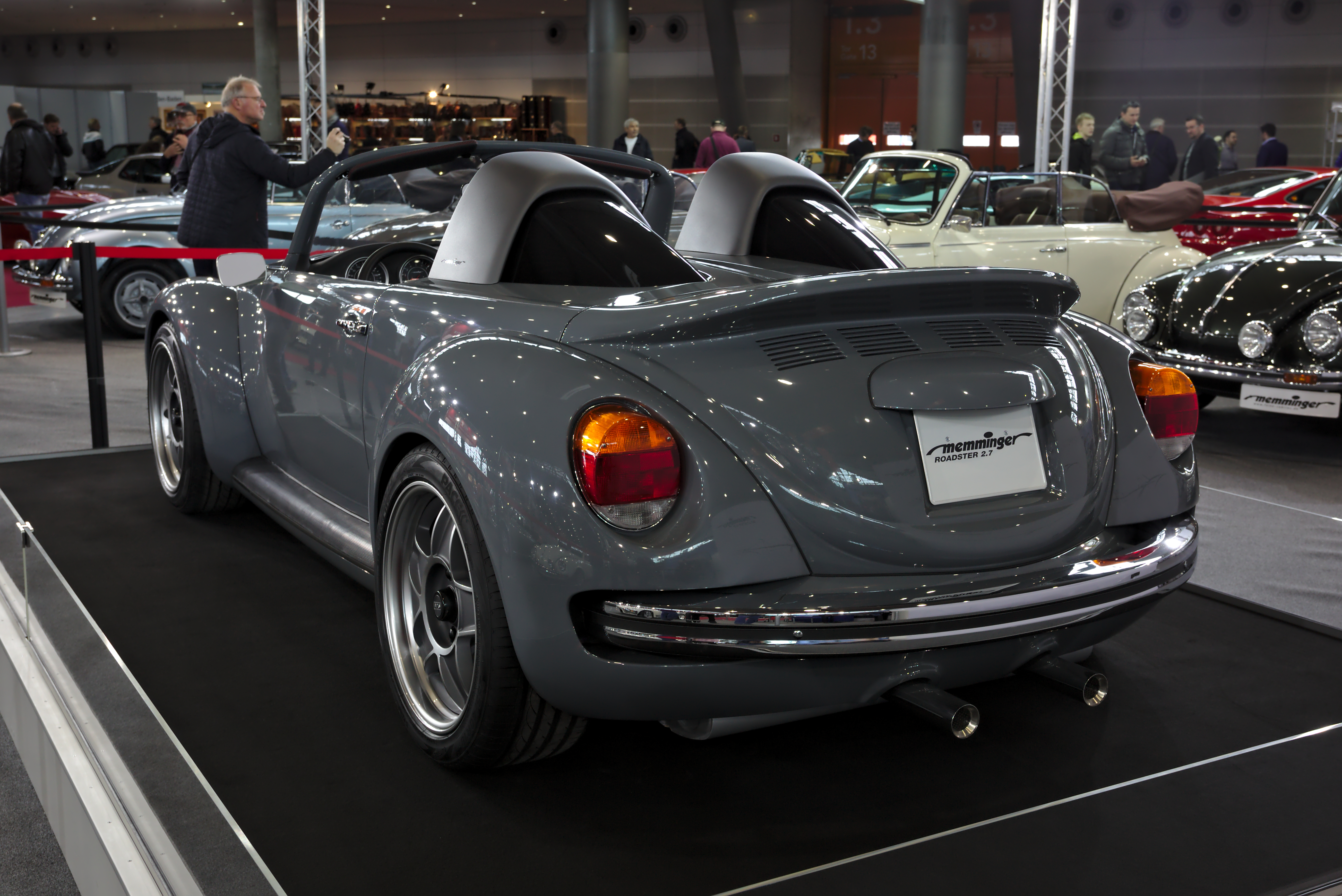 Memminger Roadster 2.7 at Retro Classics 2018